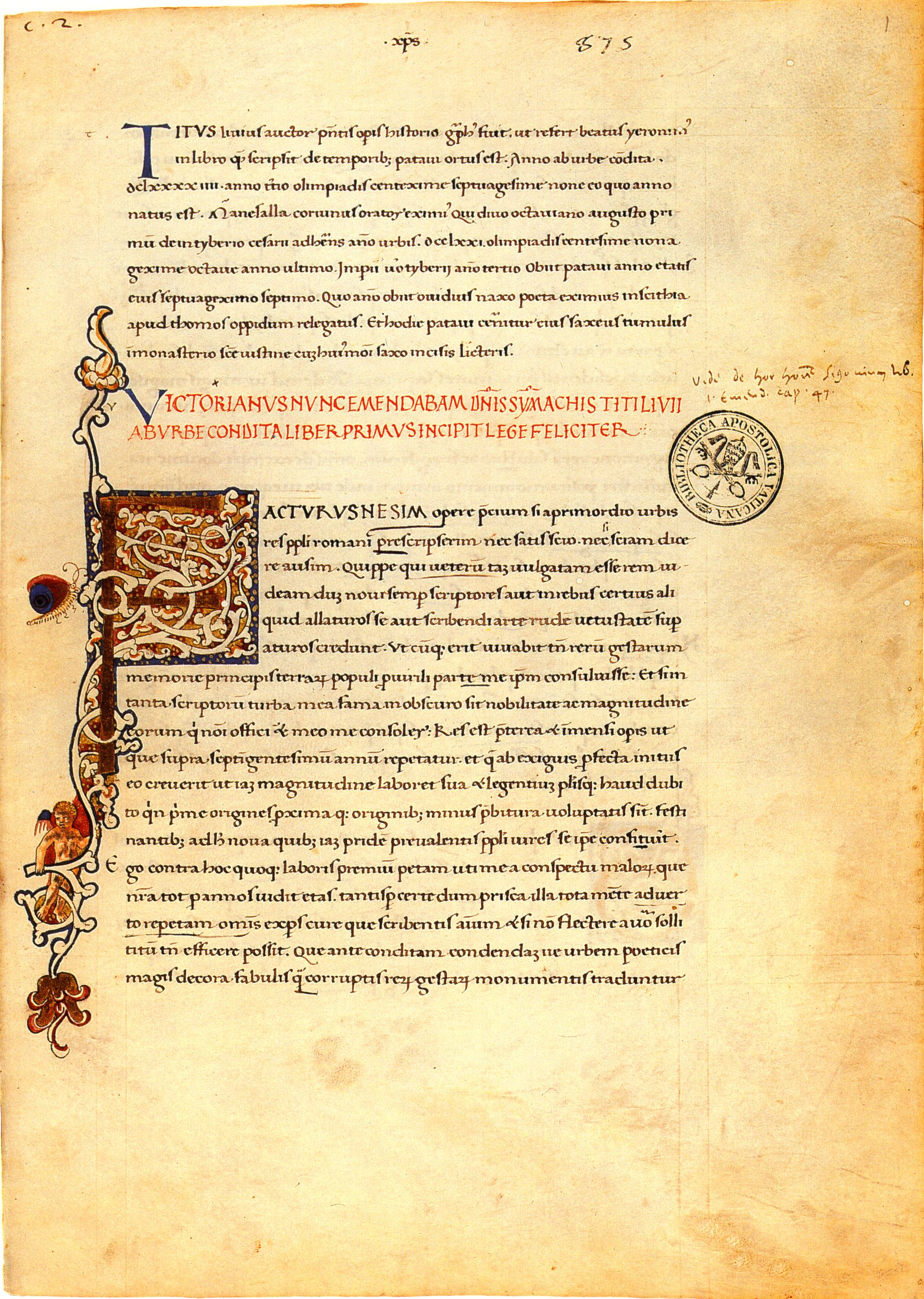 The beginning of Livy’s Ab urbe condita in ms. Biblioteca Apostolica Vaticana, Vaticanus Palatinus lat. 875, fol. 1r.